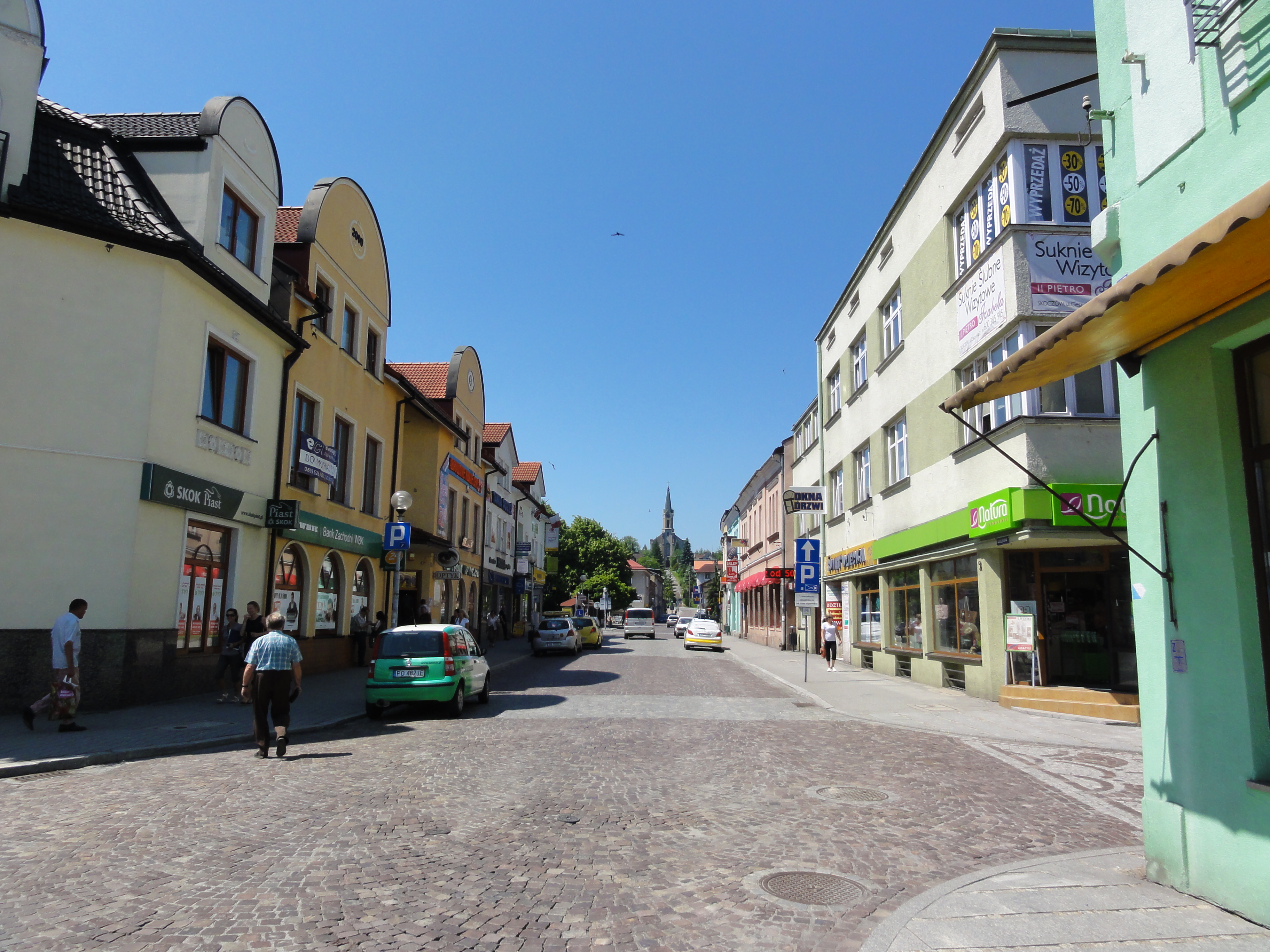 Cieszyńska Street in Skoczów